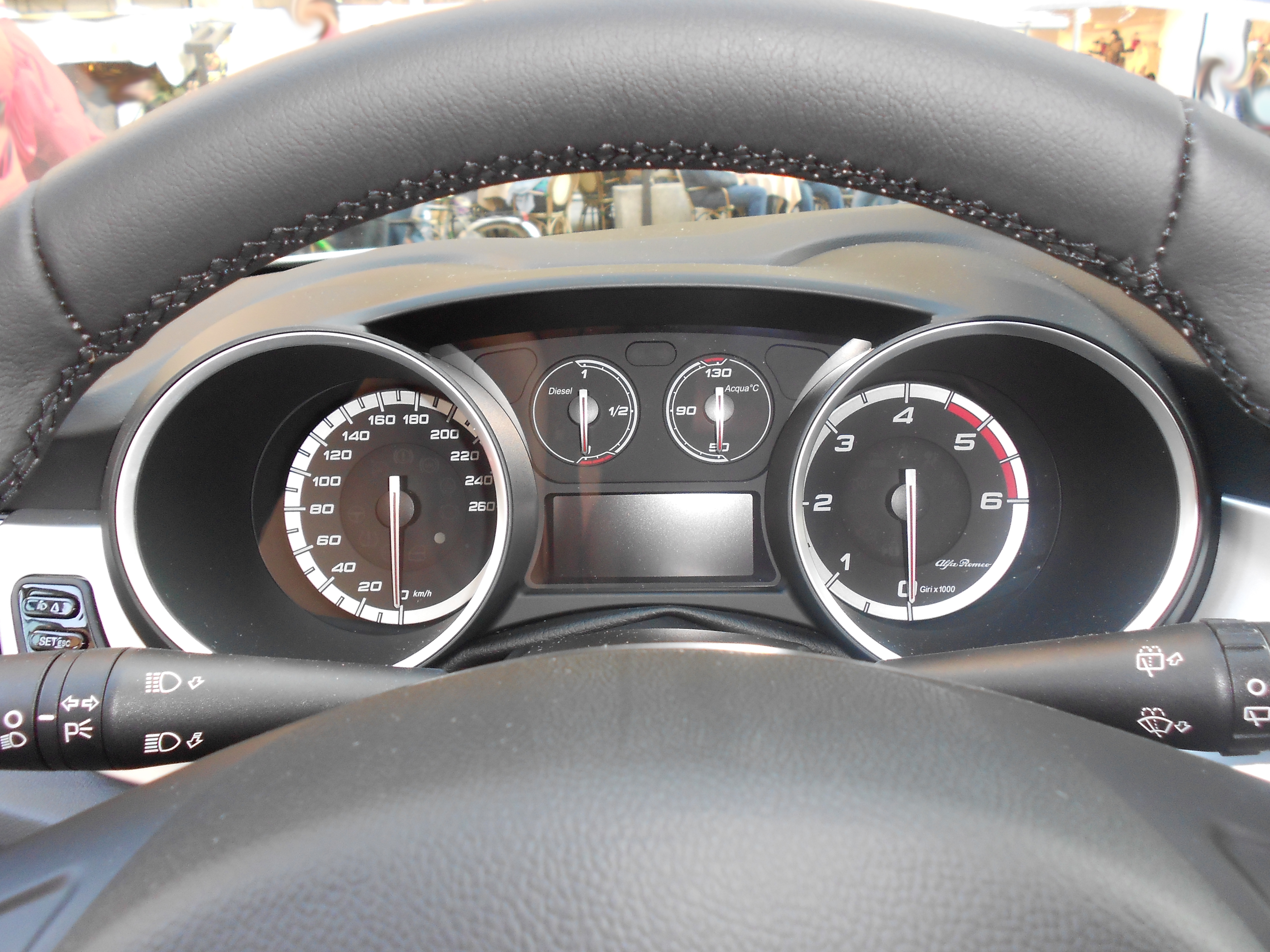 Interior of Alfa Romeo Giulietta, foto make at Milan, Corso Buenos Aires Modello: Giulietta Costruttore: Alfa Romeo Gruppo: Fiat Group